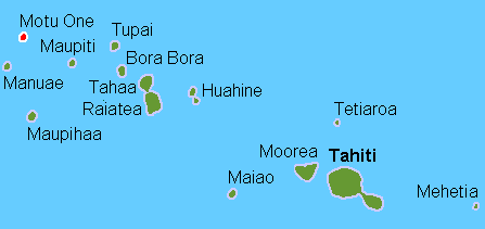 Location of Motu One within Society Islands, French Polynesia